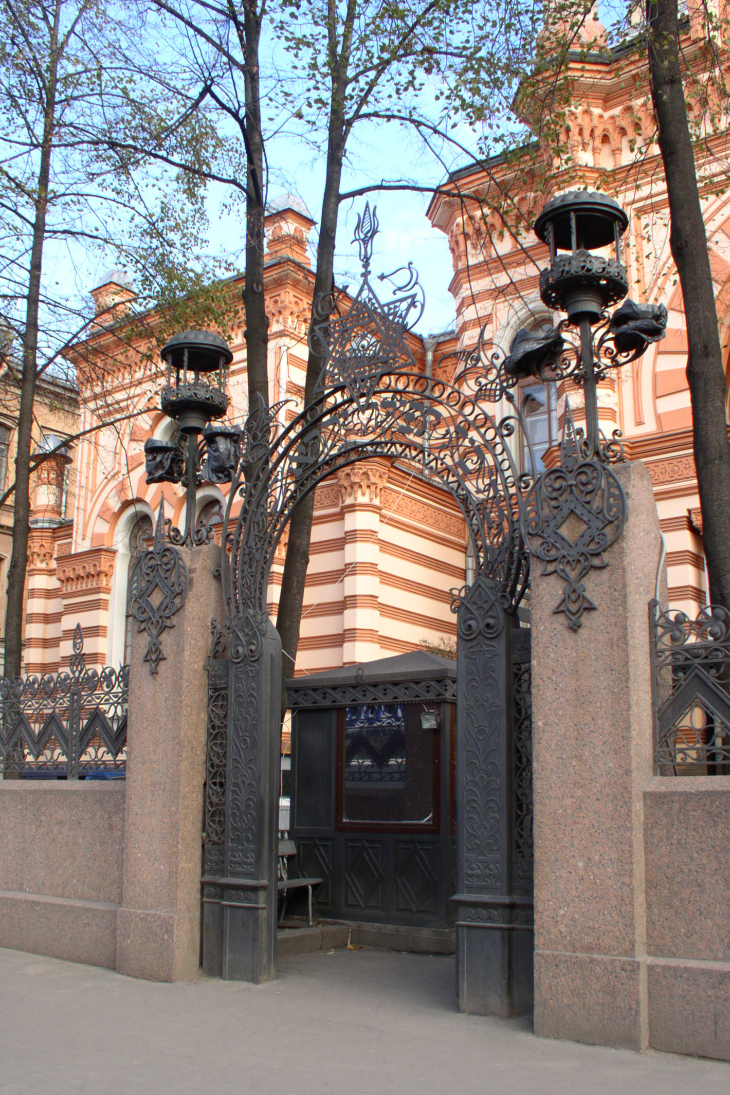 The gate of Saint Petersburg Synagogue. October 11, 2007.